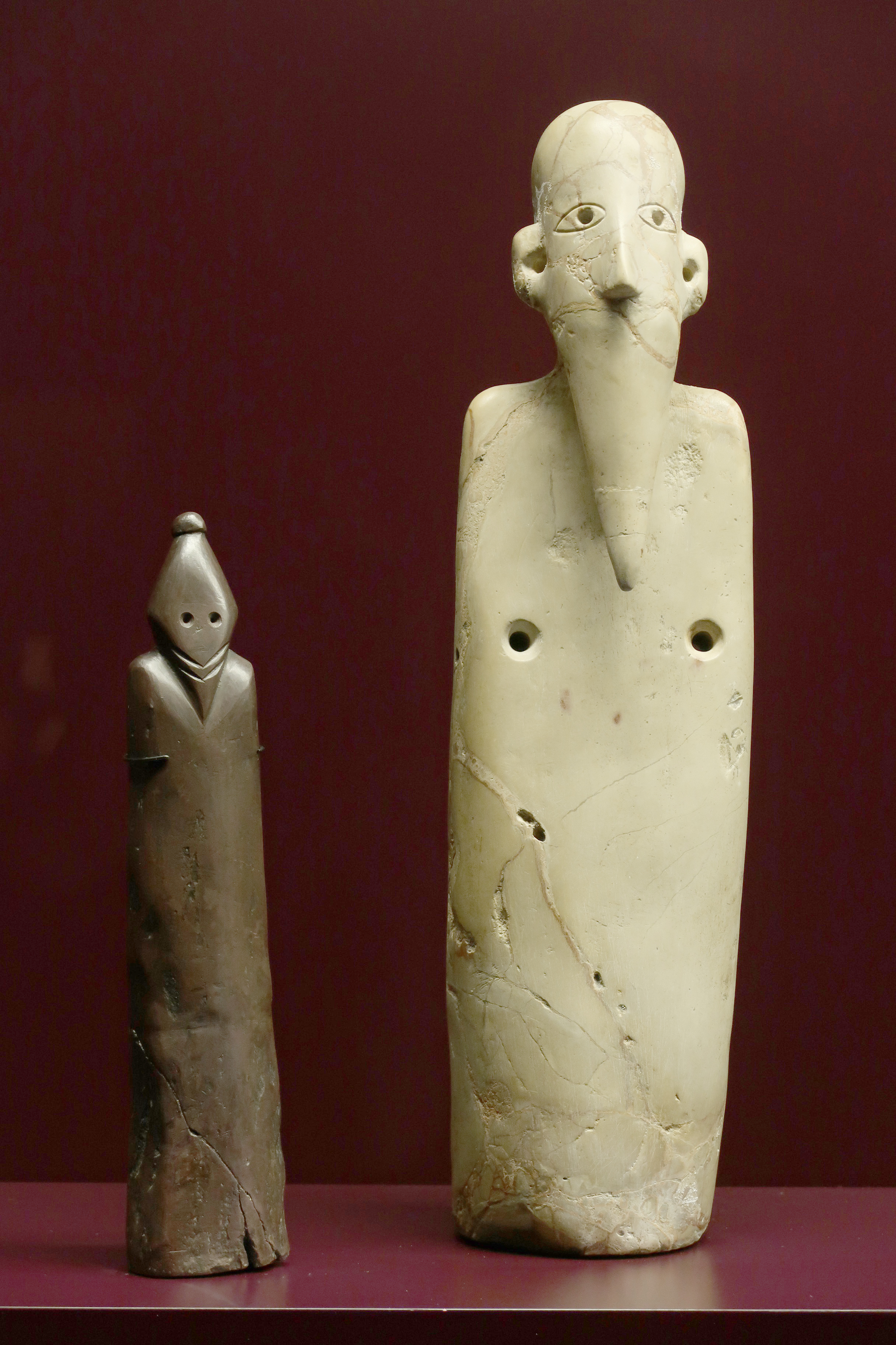 Bearded man (left): stone. 3800-3500 Nagada I. Upper Egypt (Gebelein). inv 90000172. Confluence Museum, Lyon. Bearded man (right): breach. 3300-3100 Nagada I. Upper Egypt (Gebelein). inv 90000171. Confluence Museum, Lyon. "Found in shrines or tombs, these very rare statues are probably a representation of male power.In the dynastic period, the beard will be one of the symbols of pharaonic power." : : notice Musée des Confluences, Lyon.